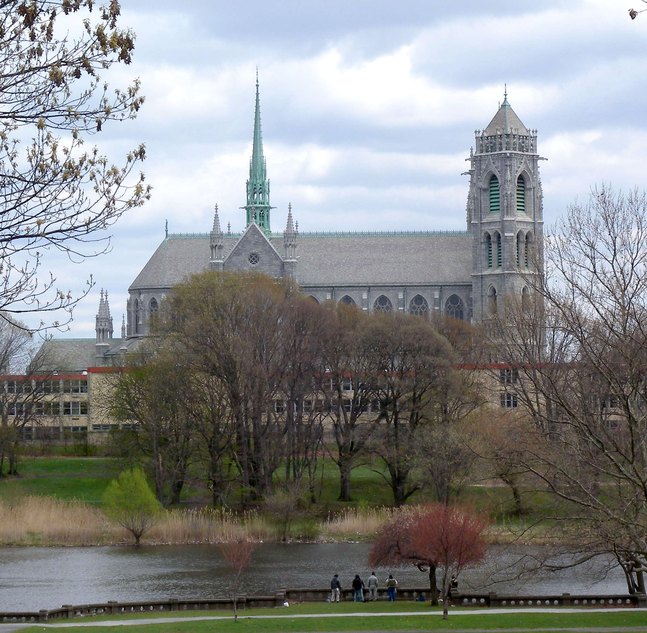 Looking eastward across Branch Brook Park at Cathedral Basilica of the Sacred Heart, Newark, New Jersey on a mostly sunny midday.